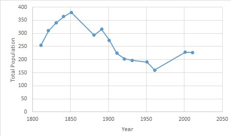 The Total Population of Pentlow Parish as reported by the Census of Population from 1811-2011